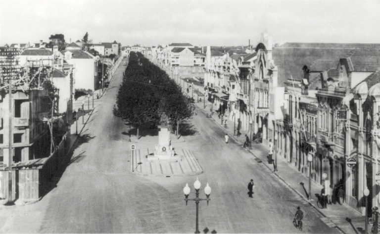 Lourenço Peixinho Ave., in Aveiro, Portugal.